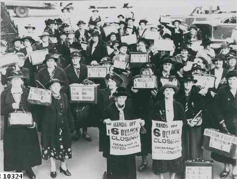 A "Suitcase Parade" of women opposed to changes to six o'clock closing - Group of women protest for a referendum prior to changes to hotel hours, assembled outside Parliament House, 21 September 1938 - see Six o'clock swill